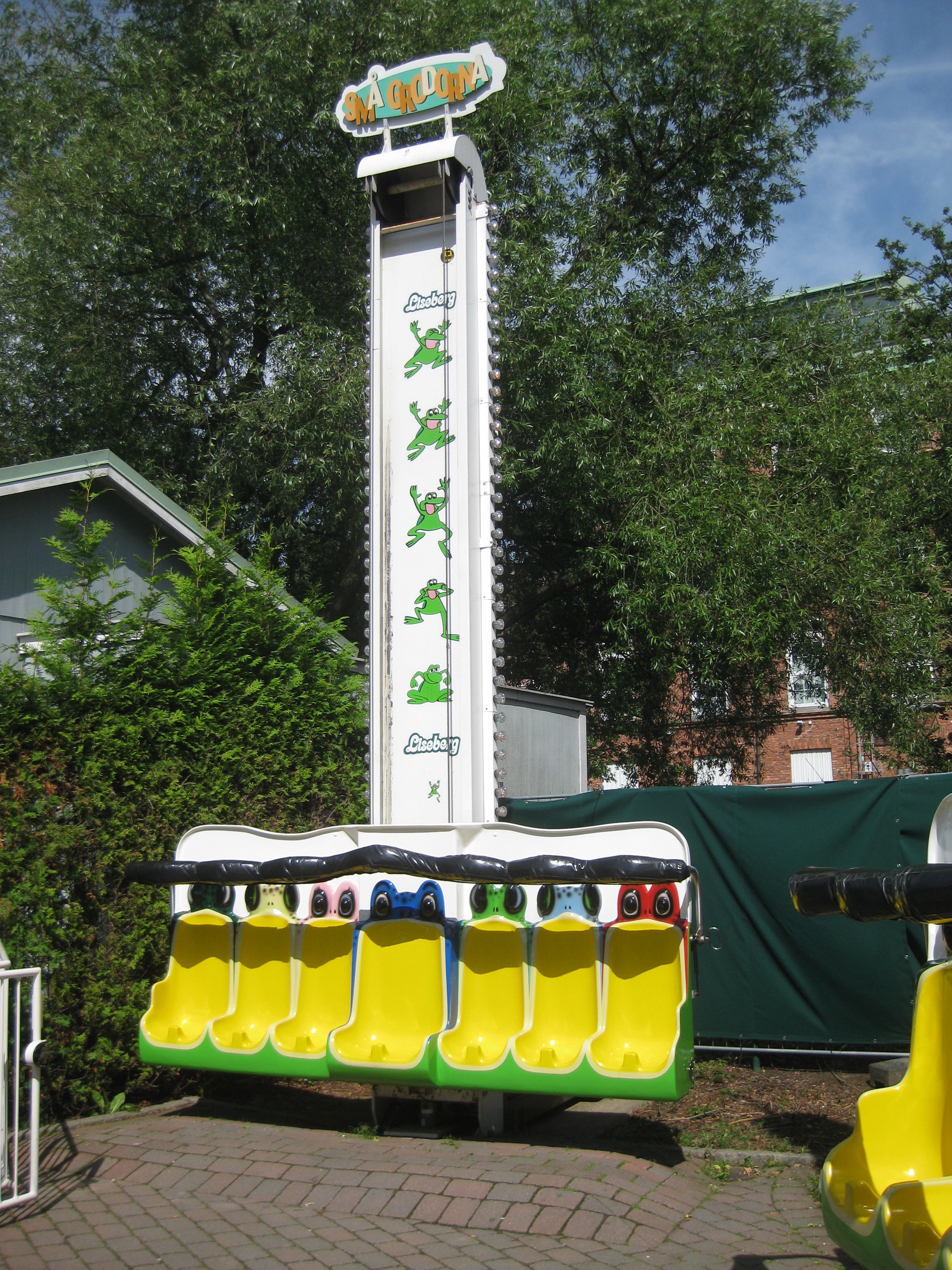 The ride Små grodorna (the Small Frogs) at the amusement park Liseberg in Gothenburg, Sweden.